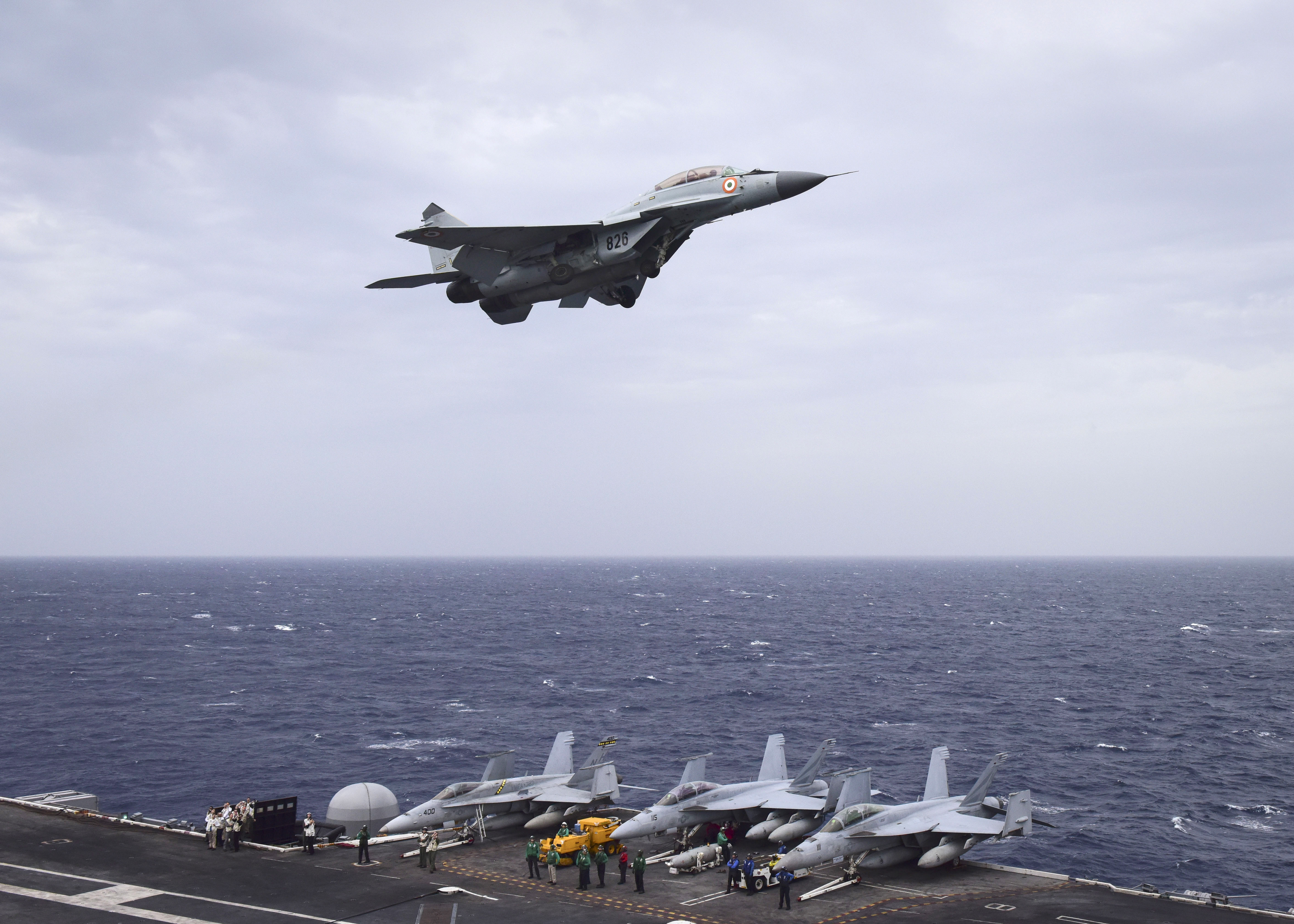 BAY OF BENGAL (July 16, 2017) An Indian navy MIG-29K Fulcrum aircraft flies over the aircraft carrier USS Nimitz (CVN 68) in the Bay of Bengal during Exercise Malabar 2017. Malabar is the latest in a continuing series of exercises between the Indian navy, Japan Maritime Self-Defense Force and U.S. Navy that has grown in scope and complexity over the years to address the variety of shared threats to maritime security in the Indo-Asia-Pacific region. (U.S. Navy photo by Mass Communication Specialist 3rd Class Weston A. Mohr/Released)170716-N-UM507-166 Join the conversation: navylive.dodlive.mil